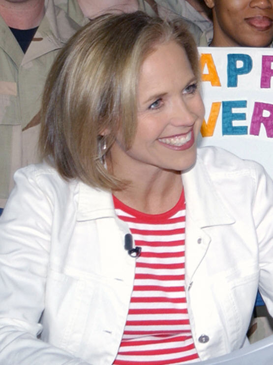 Prince Sultan Air Base, Saudi Arabia (January 14, 2003) -- NBC Today Show host Katie Couric broadcasts live from Prince Sultan Air Base, Saudi Arabia, as part of the show's coverage of Operation Southern Watch. Navy photo by Chief Journalist Douglas H Stutz. (RELEASED)